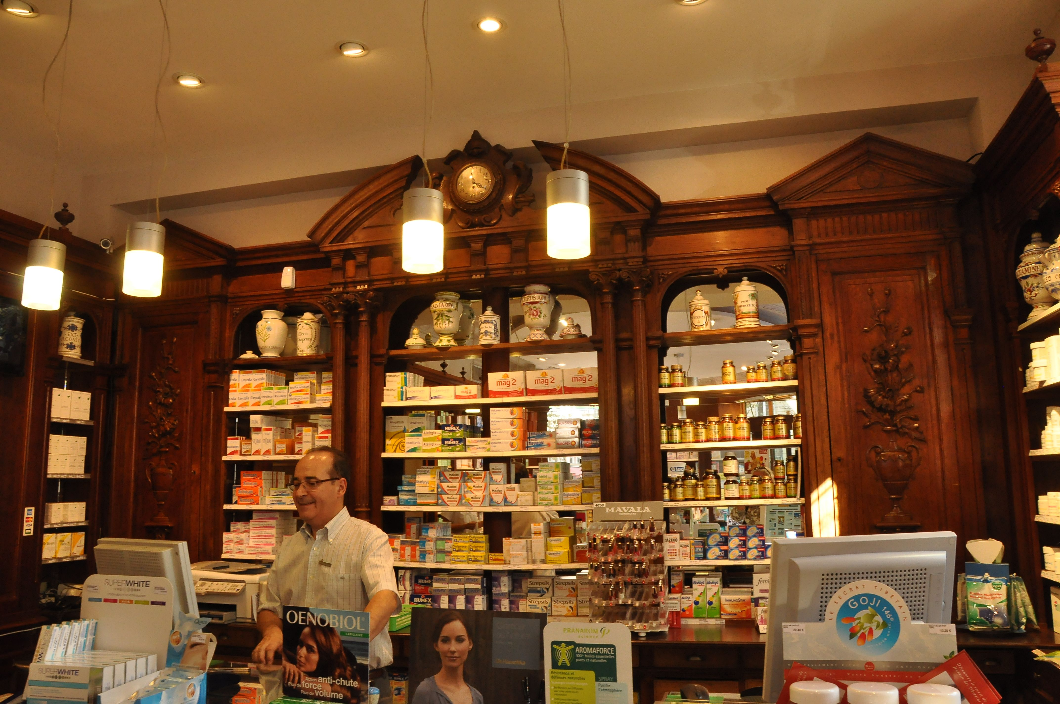 Drugstore located at 23 avenue Rapp in 7th district of Paris, France The drugstore is open since 1905 and keep the original decoration